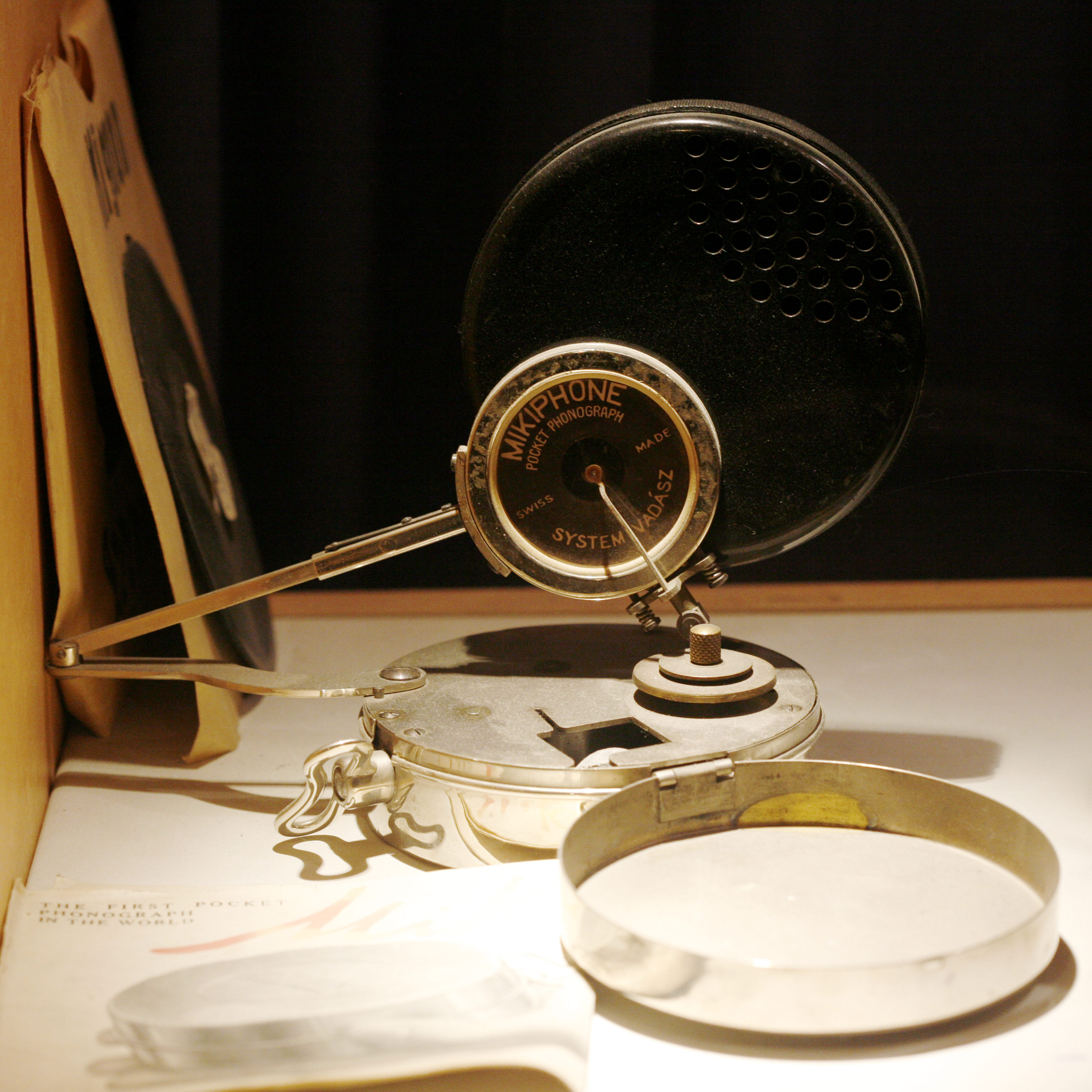 Musée Baud